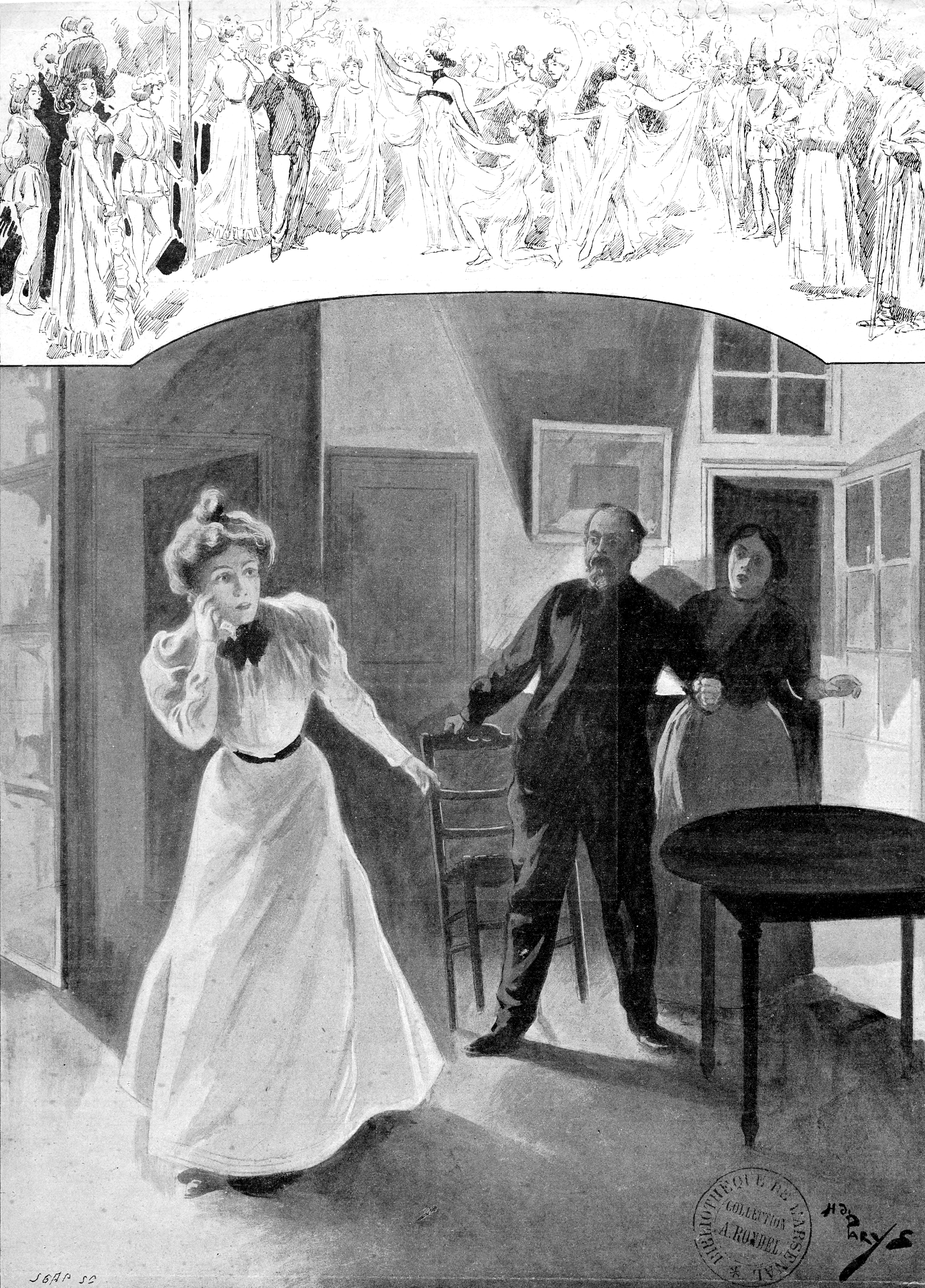 Gustave Charpentier - Louise - Couronnement de la Muse - Le départ de Louise - Opéra-Comique - Dessin de M. Parys